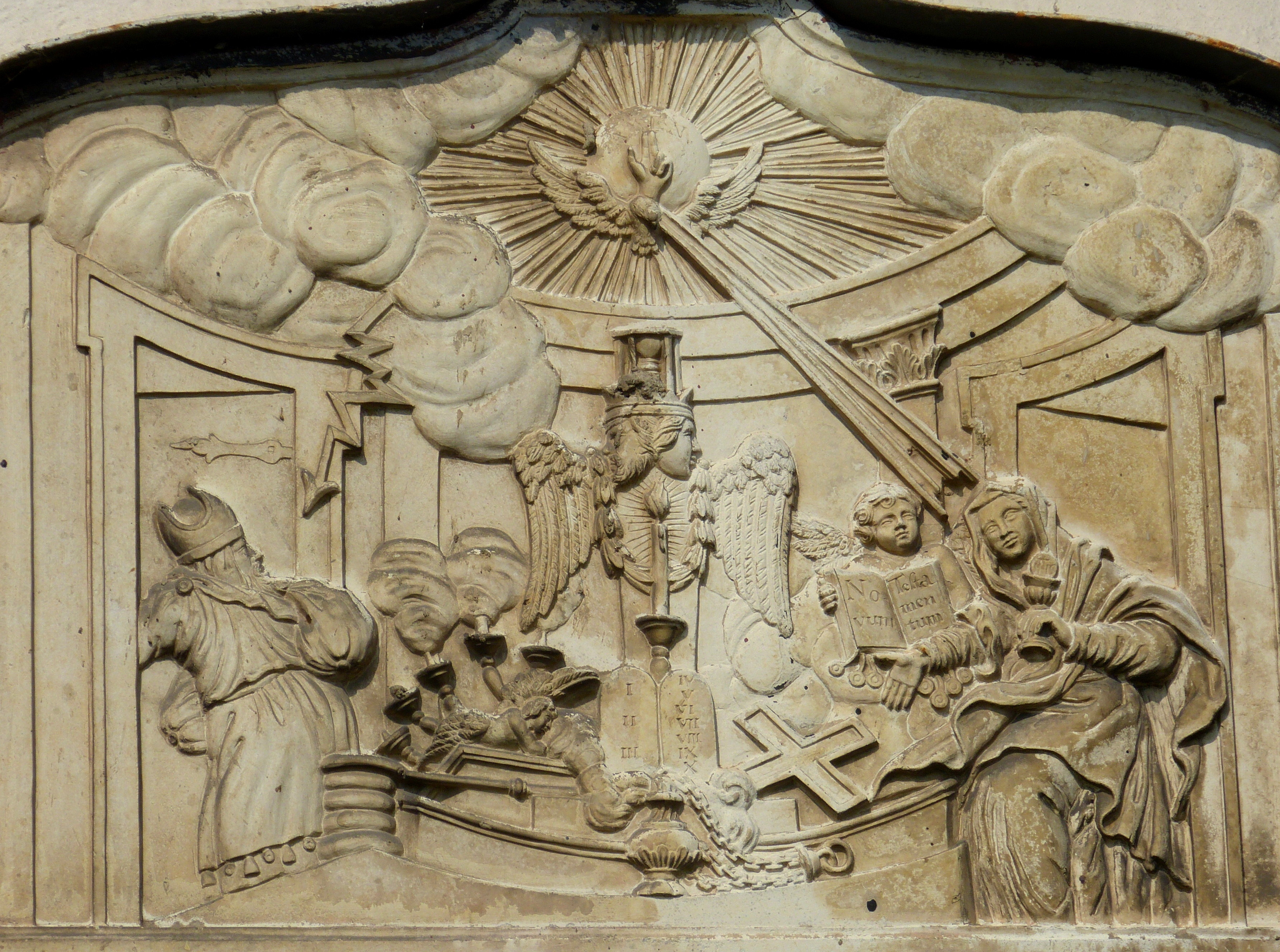 Untergriesbach ( Lower Bavaria ). Saint James the Greater parish church in Gottsdorf - Epitaph for Georg Fuchs, parish priest in Gottsdorf, died in 1839: Allegorical relief on supersessionism: God dismisses Israel and closes a new covenant with Christianity.